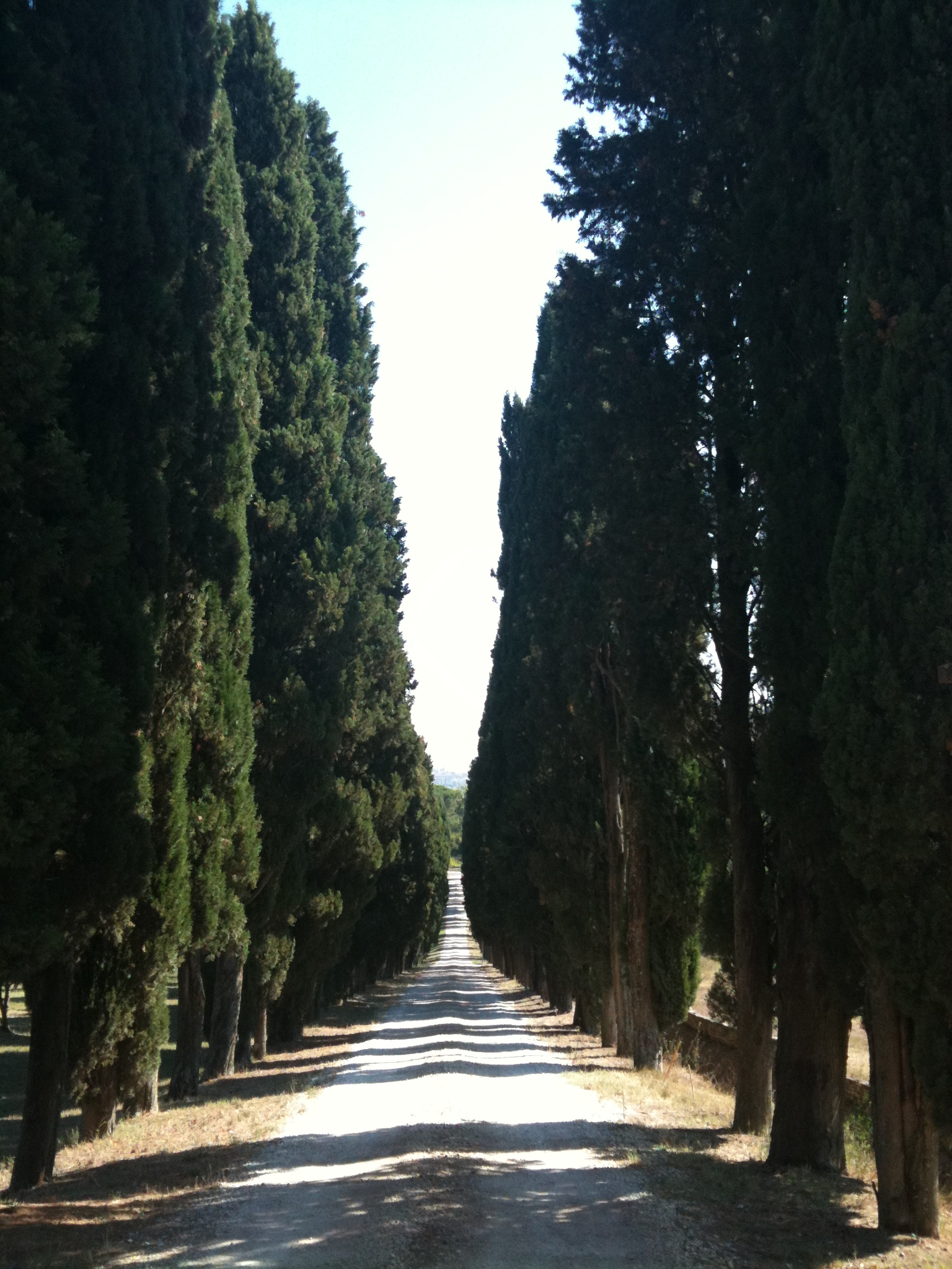 Viale della Fattoria de L'Amorosa